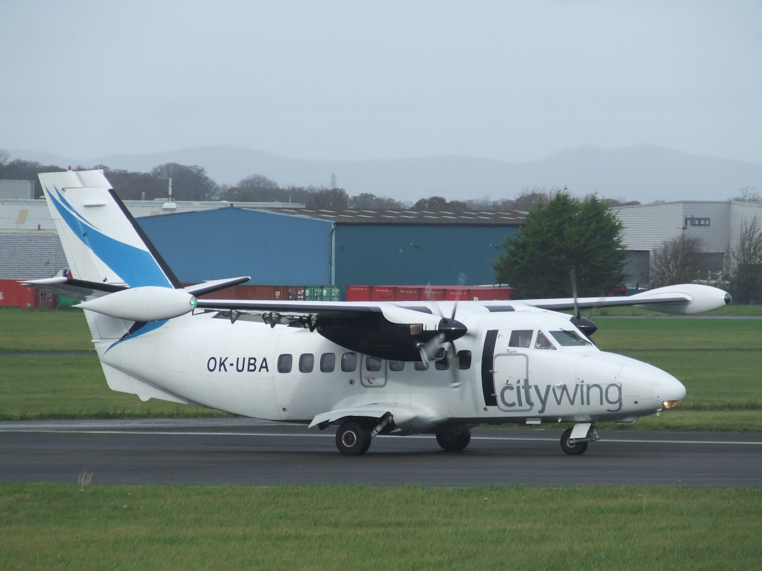 At Gloucestershire Airport.